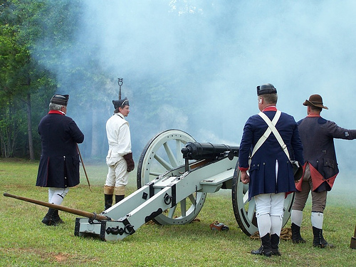 I took this picture at the celebration of the 225th anniversary of the siege at Star Fort. Template:Star Fort, Ninety Six, South Carolina Object location34° 09′ 19″ N, 82° 00′ 46″ W